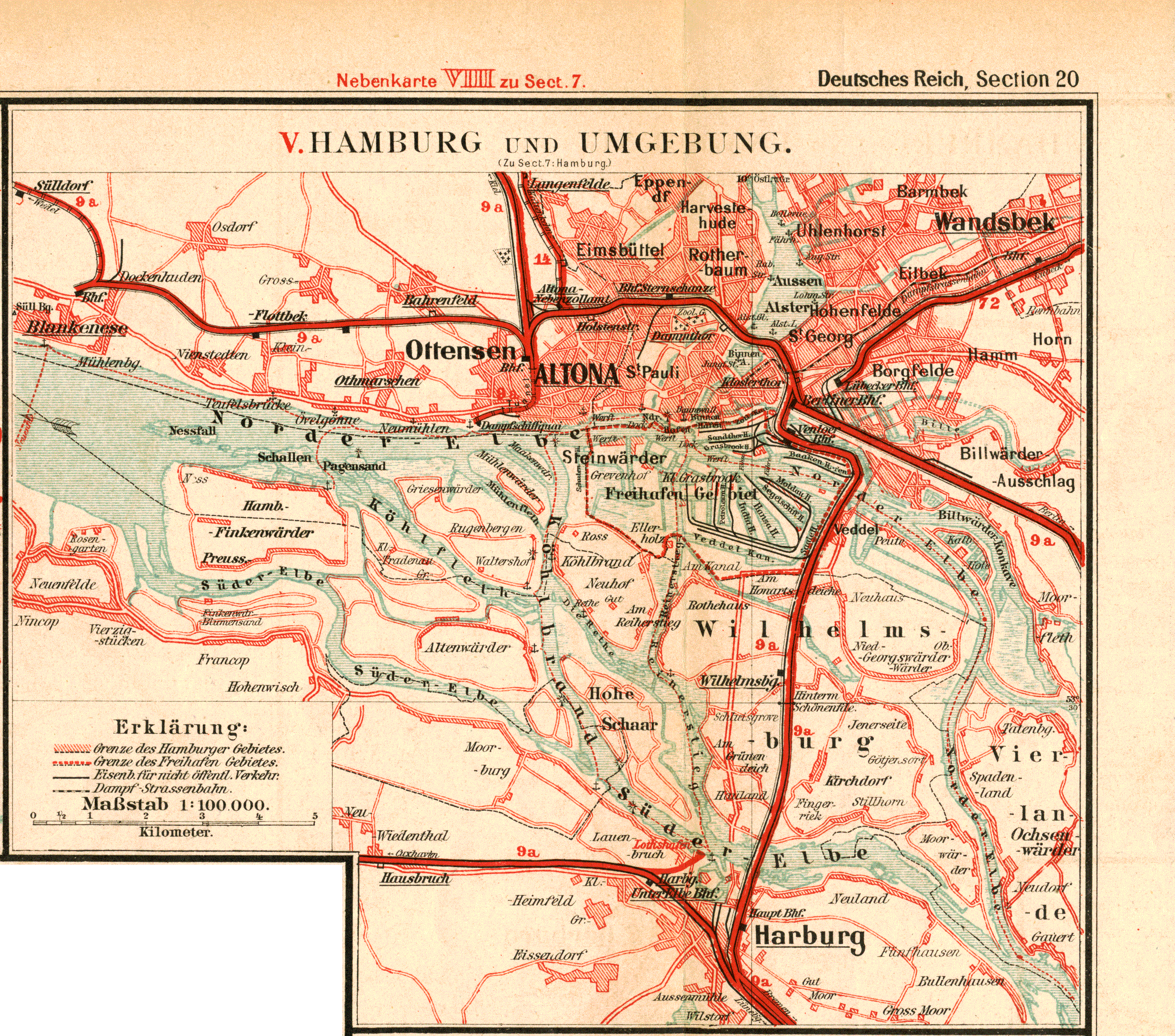 Railway map of Hamburg